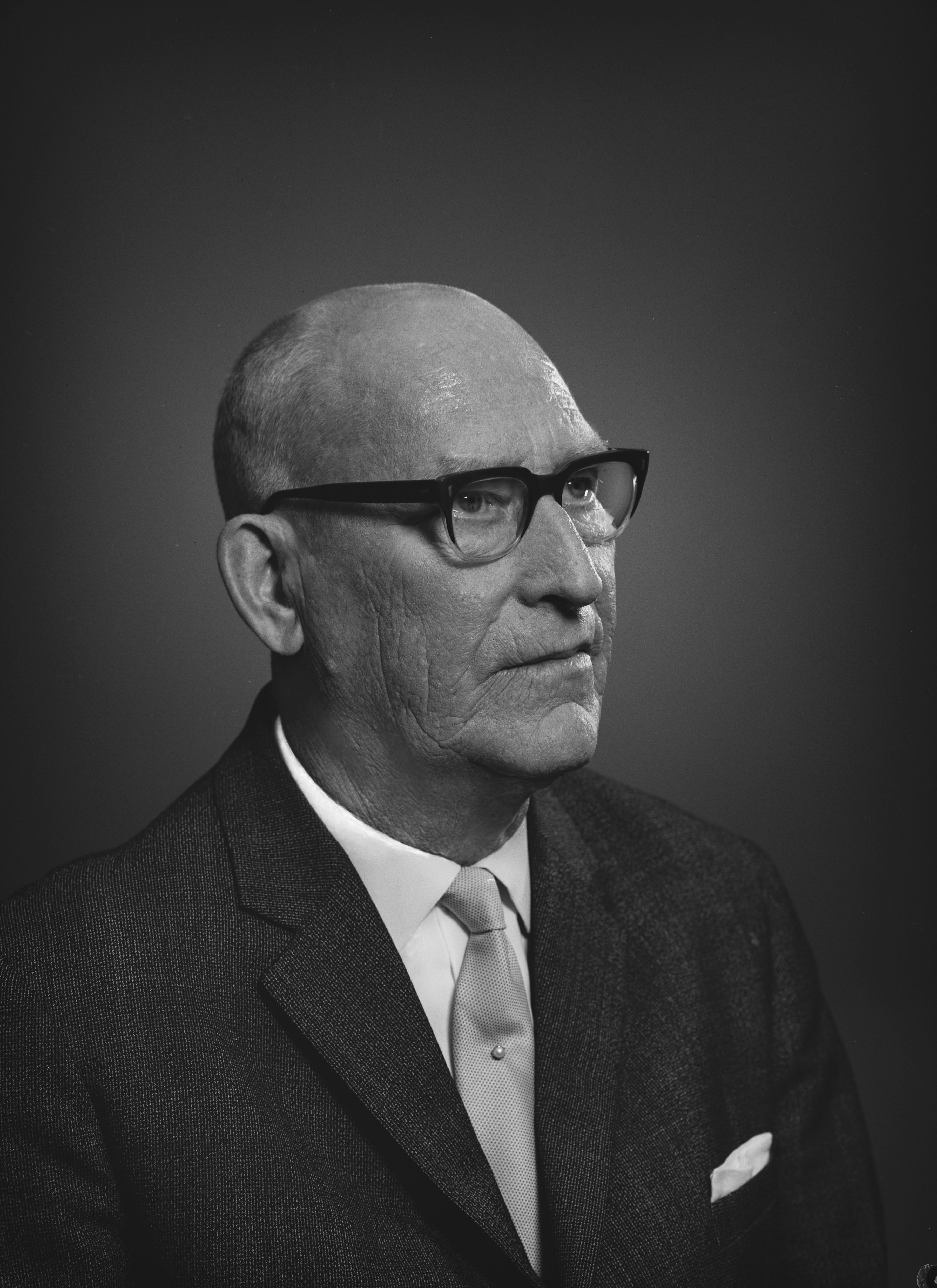 Photograph of the Finnish Jäger Colonel Arthur Saarmaa (1892–1971).